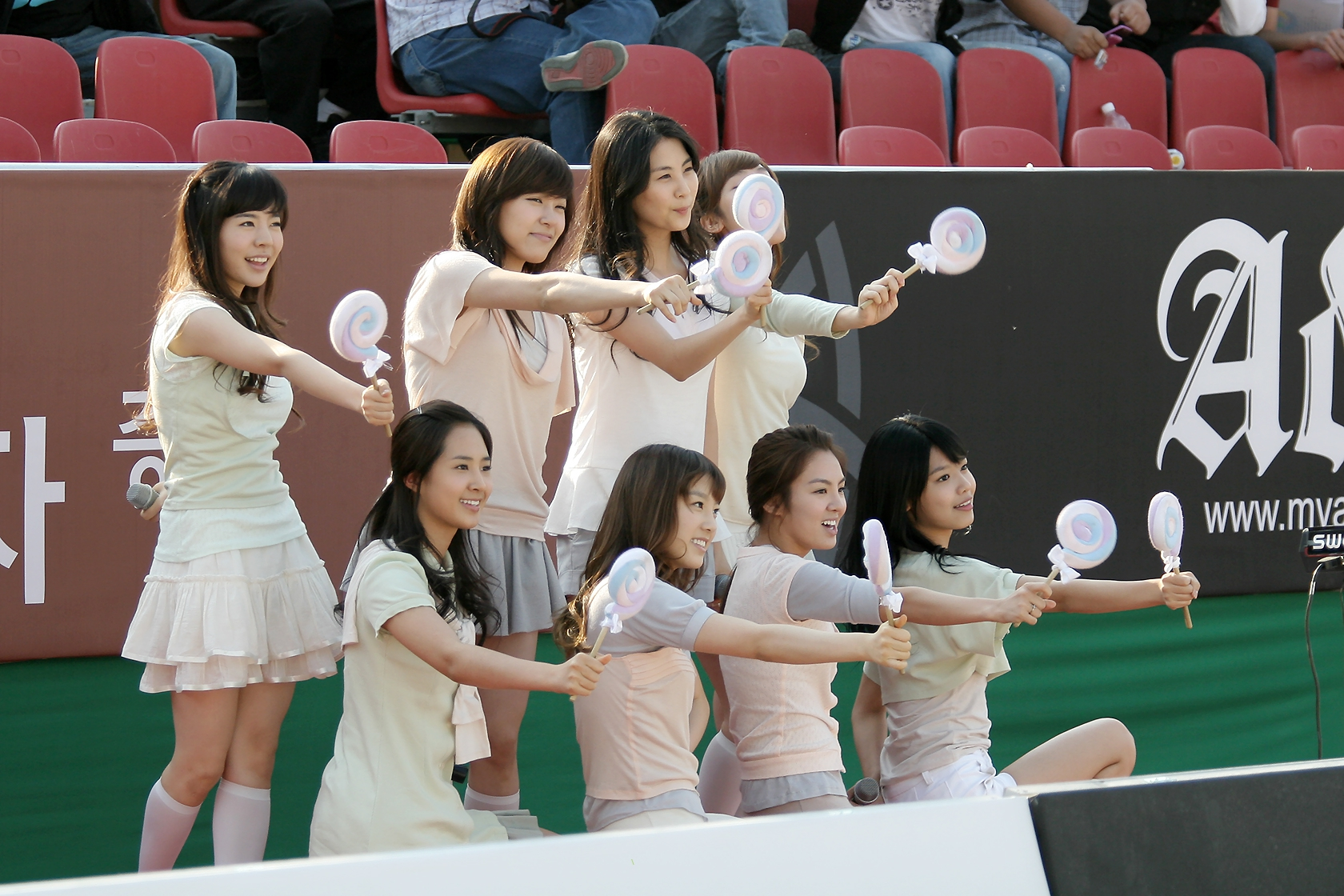 Girls' Generation performing at the 2008 beach volleybal competition in Jamsil.